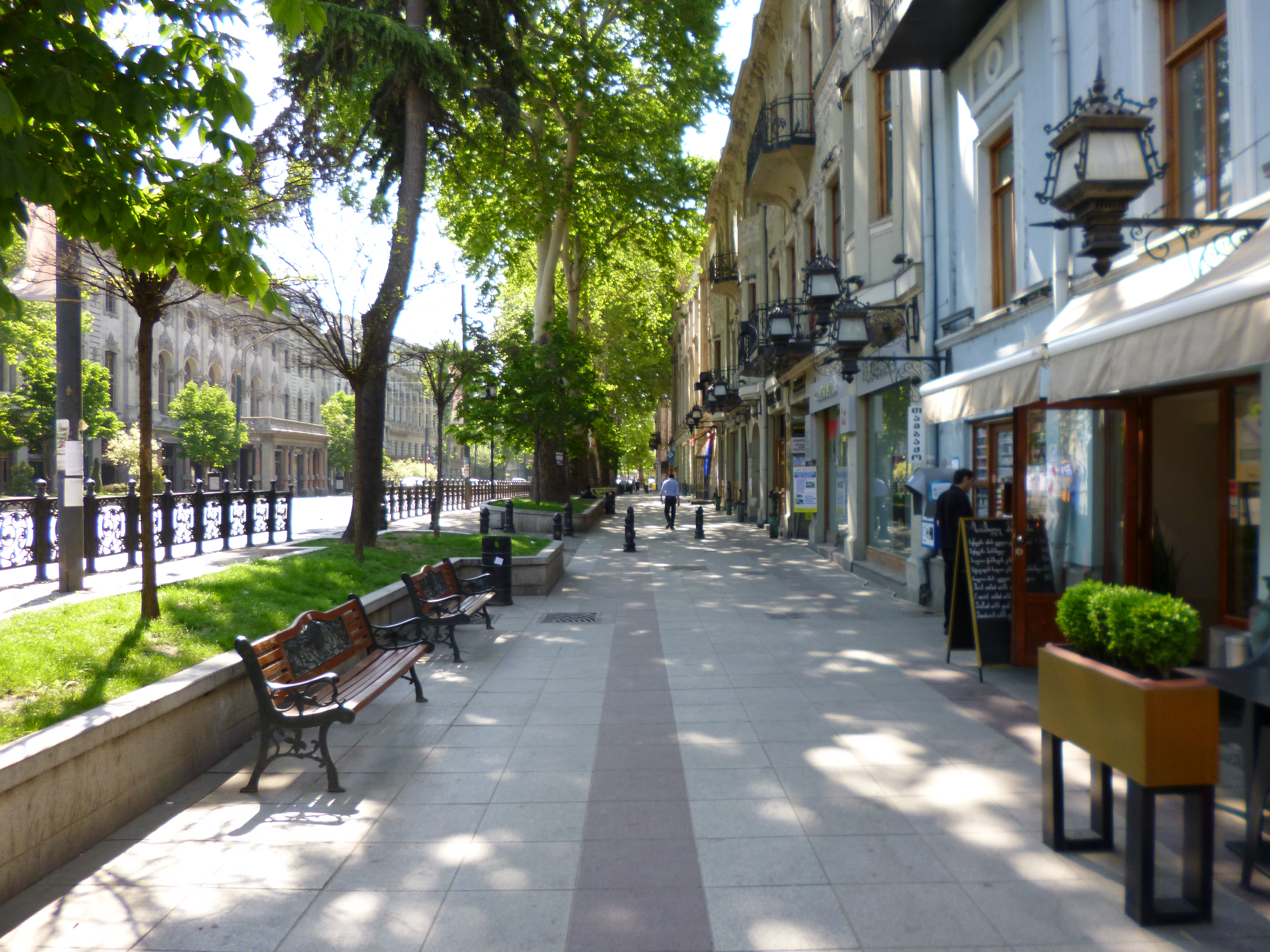 Rustaveli Avenue just past Mitropan Laghidze St Walking from Rustaveli Square to Mtatsminda Funicular Station (Chonkadze Street)